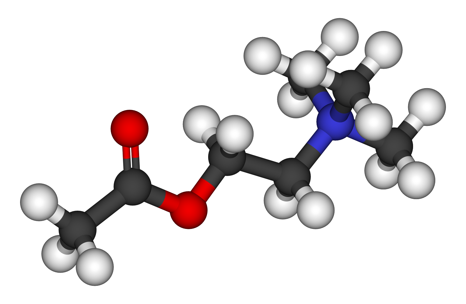 Acetylcholine